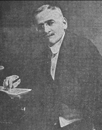 Photo from sheet music